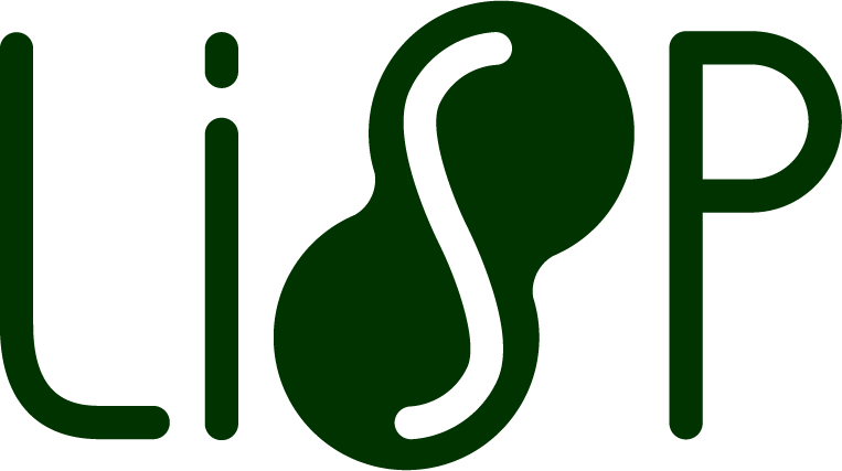 A logo for the Location/ID Separation Protocol.